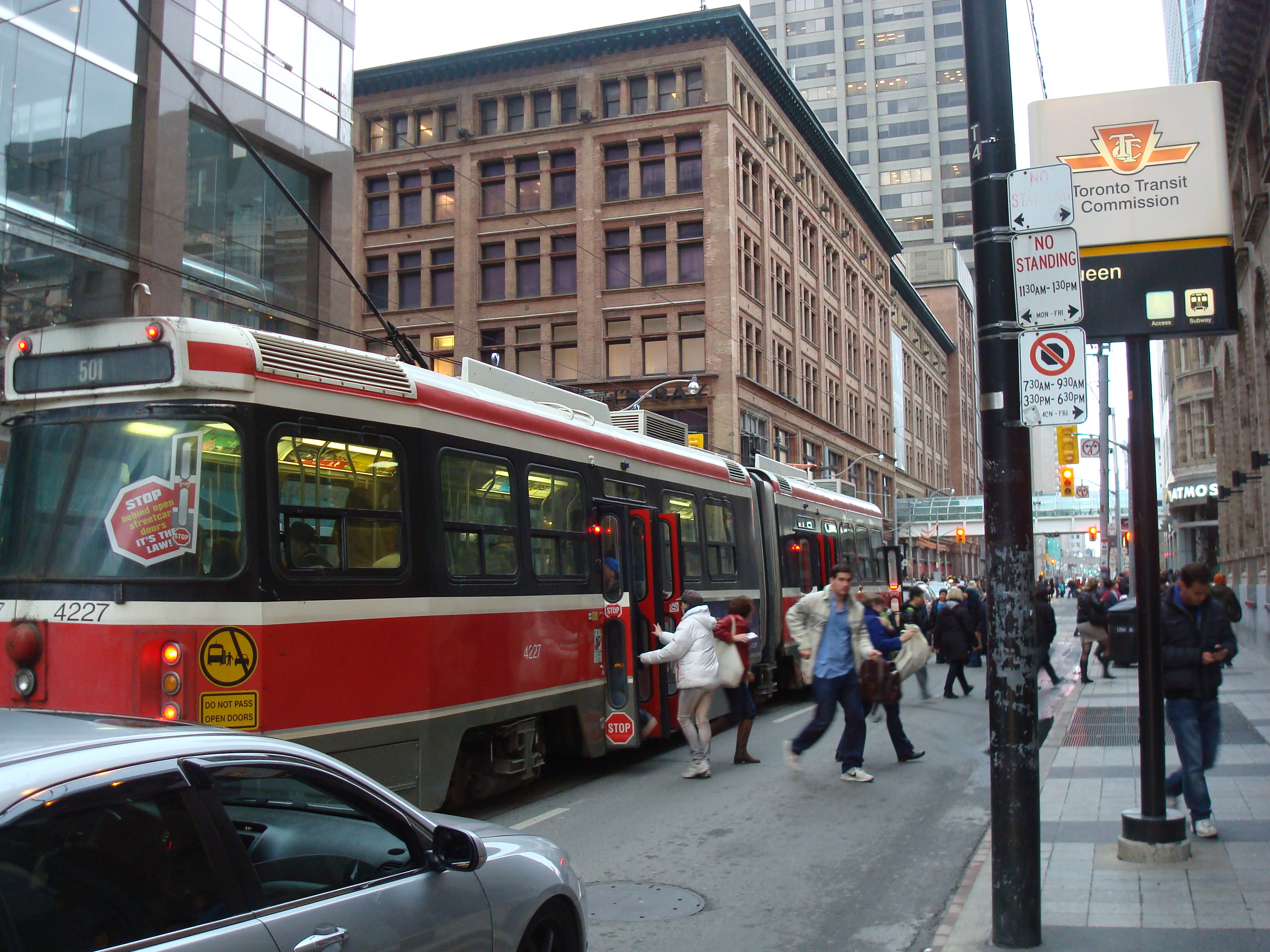 A streetcar (TTC ALRV 4227) unloads passengers at Yonge Street on November 17, 2013.